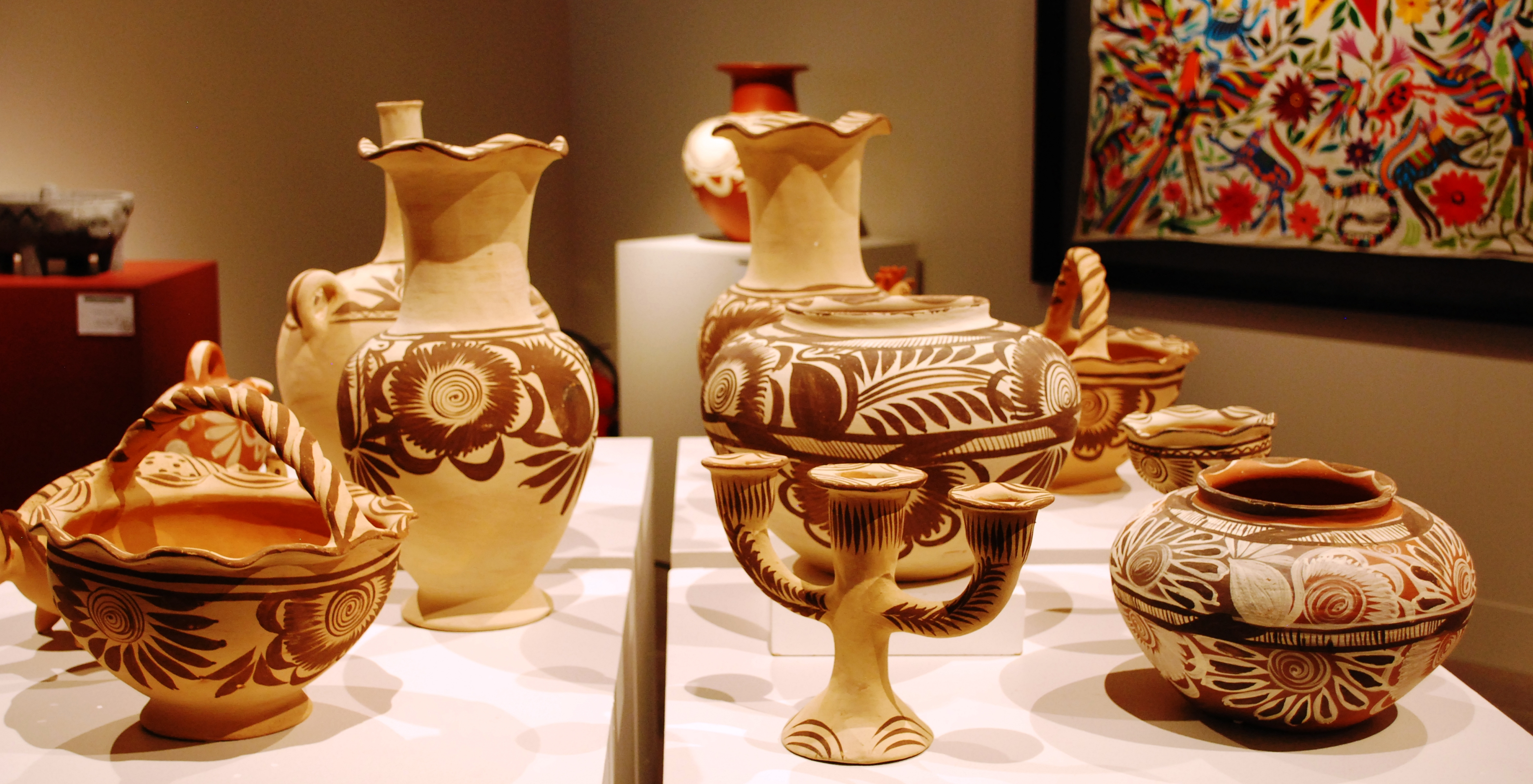 Ceramics by Nicolas Vita Hernandez of Chililco, Huejutla at a temporary exhibit on Hidalgo crafts at the Museo de Arte Popular, Mexico City